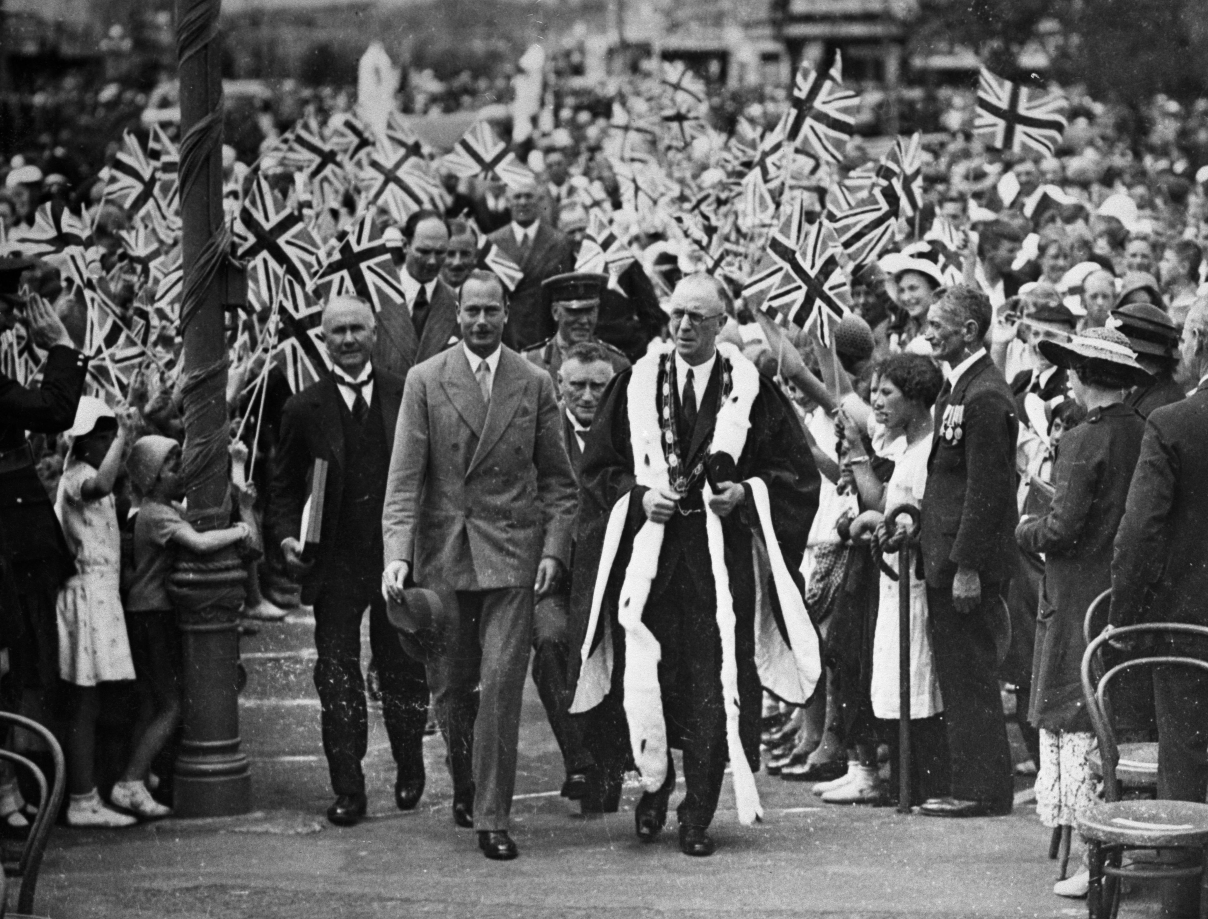 Prince Henry, Duke of Gloucester, in Palmerston North, New Zealand, on 3–4 January 1935, as part of his New Zealand tour. He is accompanied by the mayor of Palmerston North, Augustus Edward Mansford.